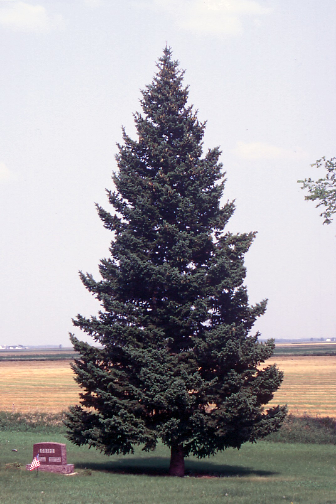 Rocky Mountain Douglas-fir. Tree.